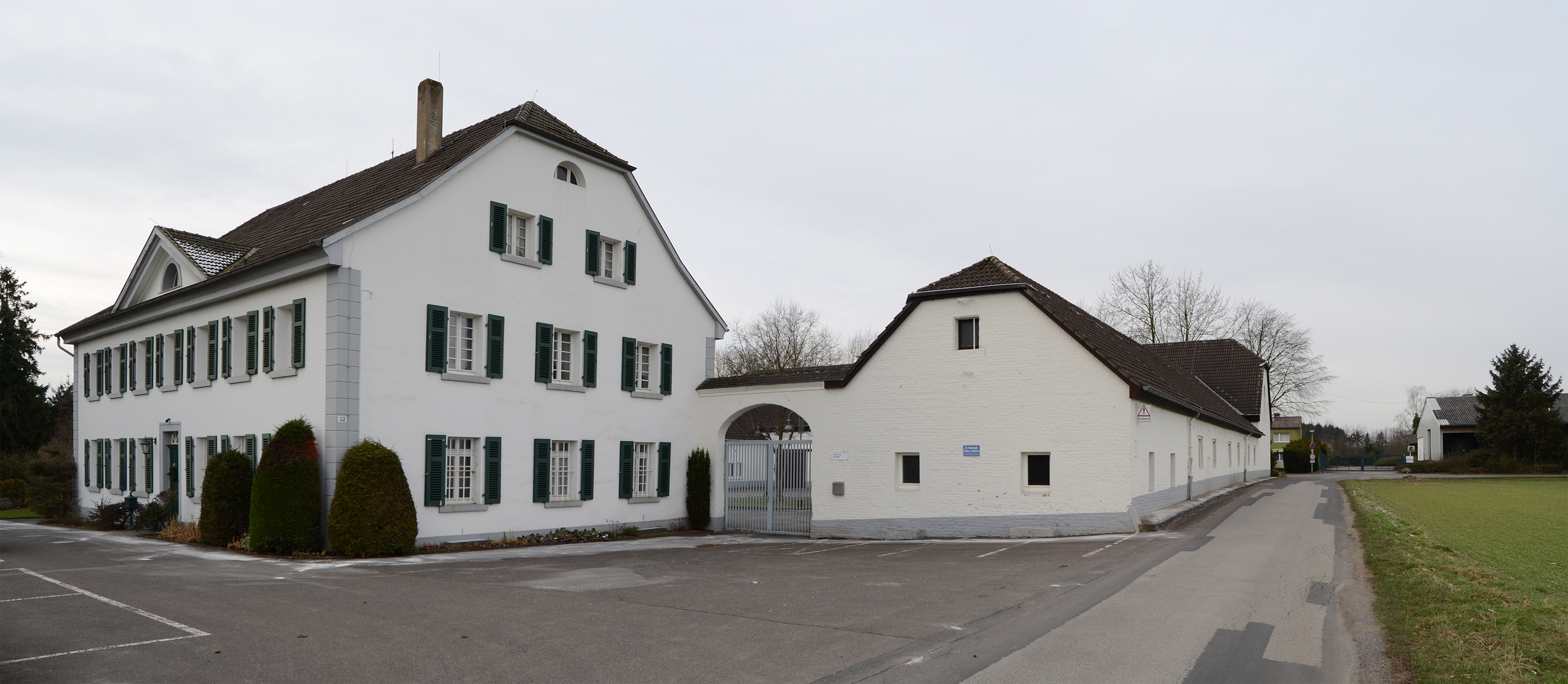 Monheim am Rhein (North Rhine-Westphalia, Germany) – farm Laacher Hof – panoramic view This image shows a heritage building in Germany, located in the North Rhine-Westphalian city Monheim am Rhein. This photograph was taken with a Nikon D7000